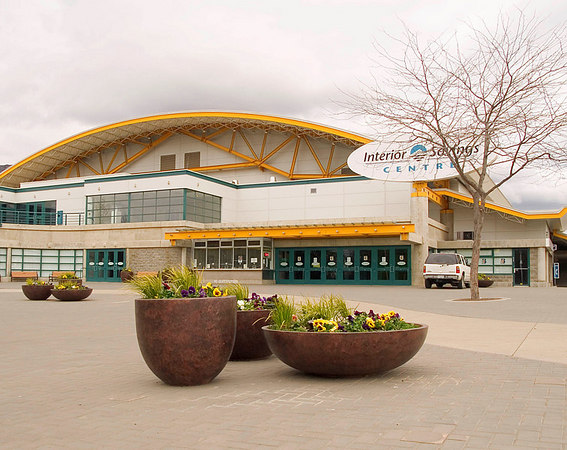 Interior Savings Centre in Kamloops, Canada.